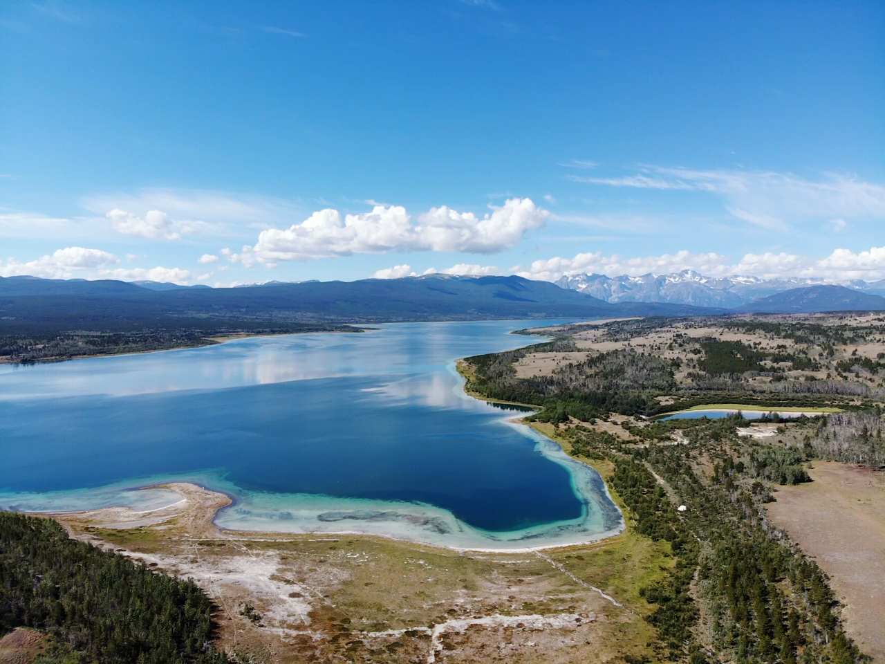 View of Choelquoit Lake looking west. The background shows Niut Mountain. Closer to the lake you see Mount Skinner to the right and the Potato Mountains to the left.